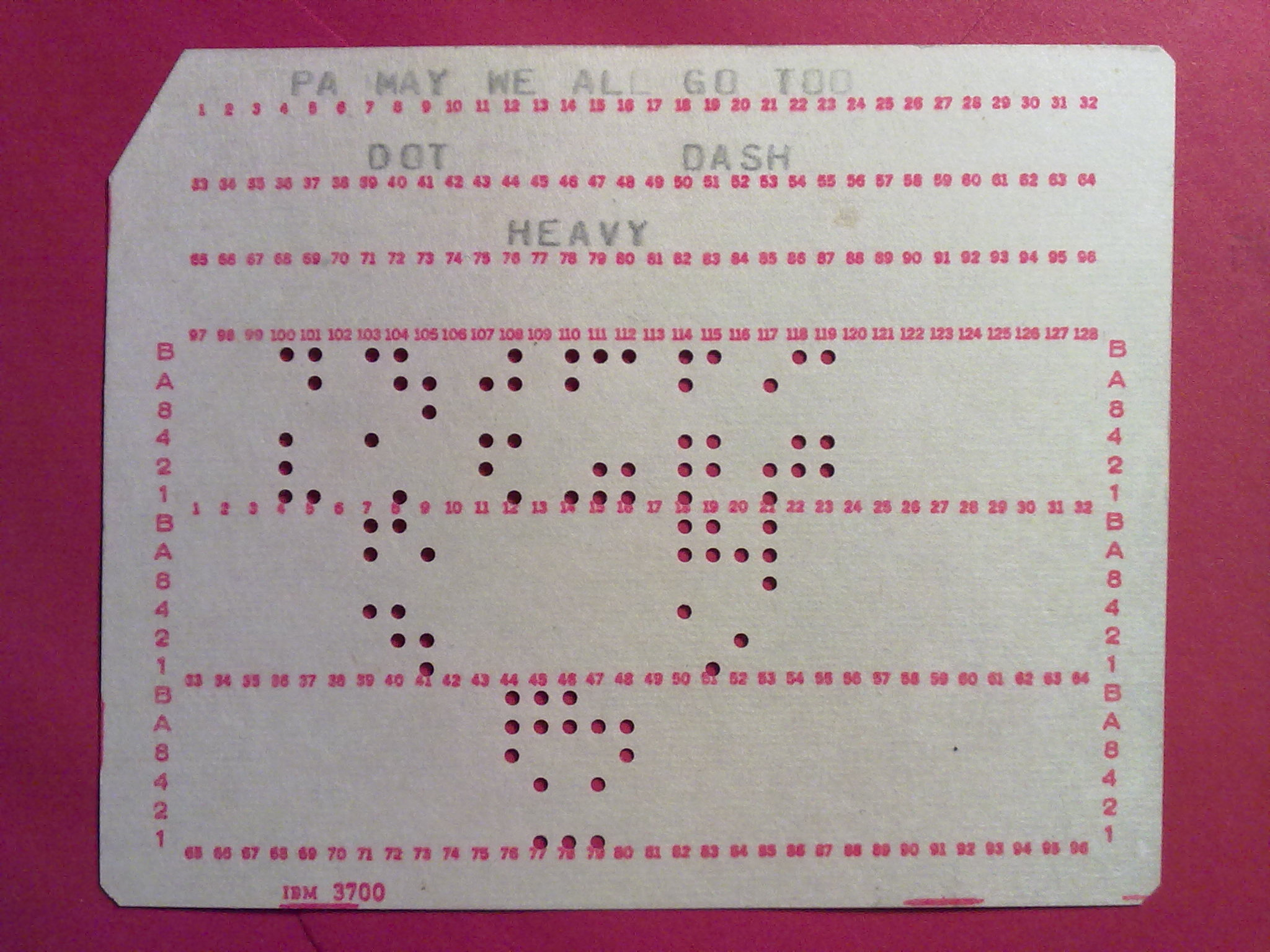 Picture of IBM 3700 punch card (System/3)